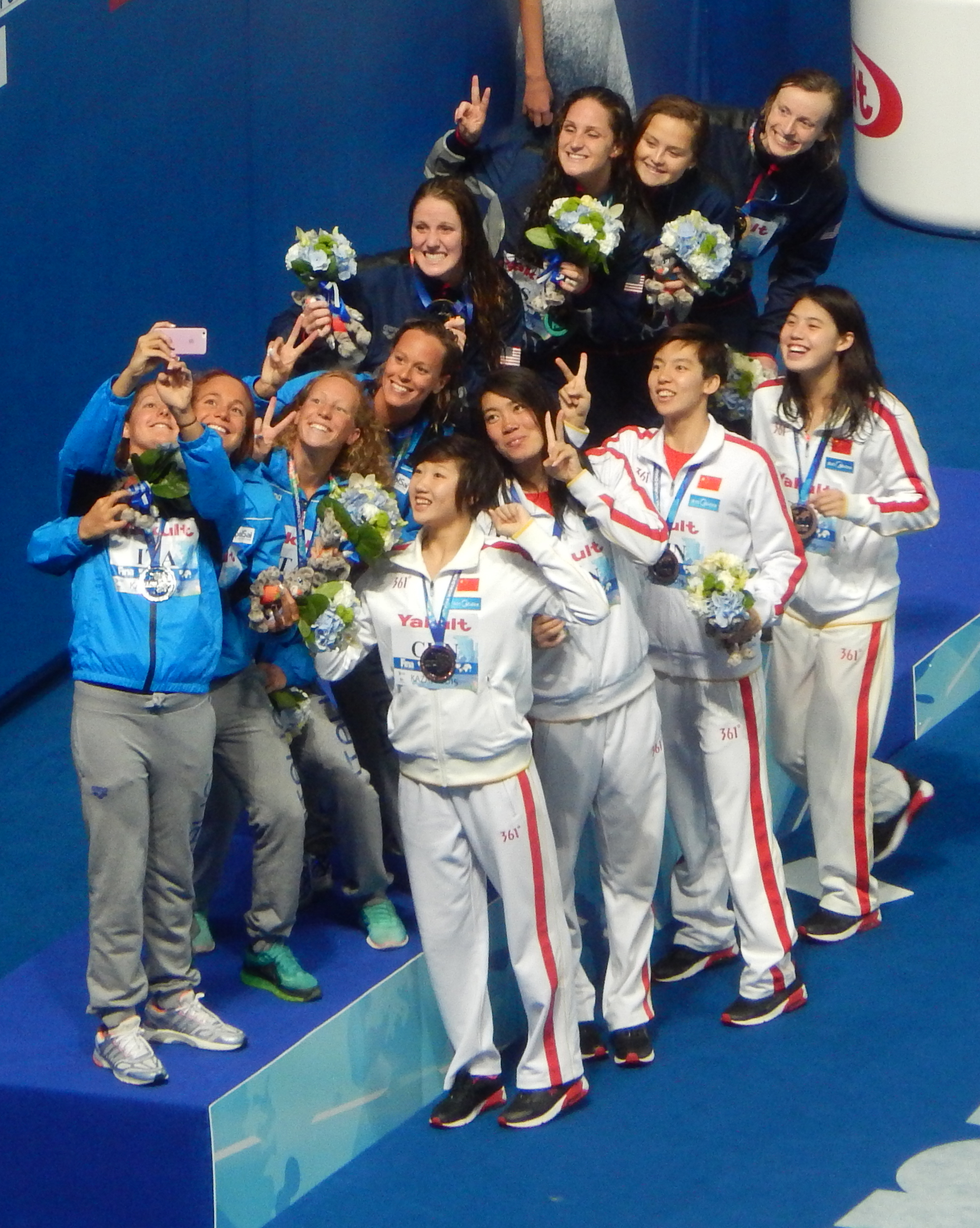 Victory Ceremony of women's 4×200 metres freestyle relay at the 2015 World Champs in Kazan